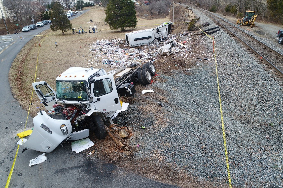 Crozet, VA ( January 31, 2018) – In this photo, damaged refuse truck at rest position after being struck by an Amtrak train at a grade crossing, Crozet, VA on Jan 31, 2018. (NTSB Photo)